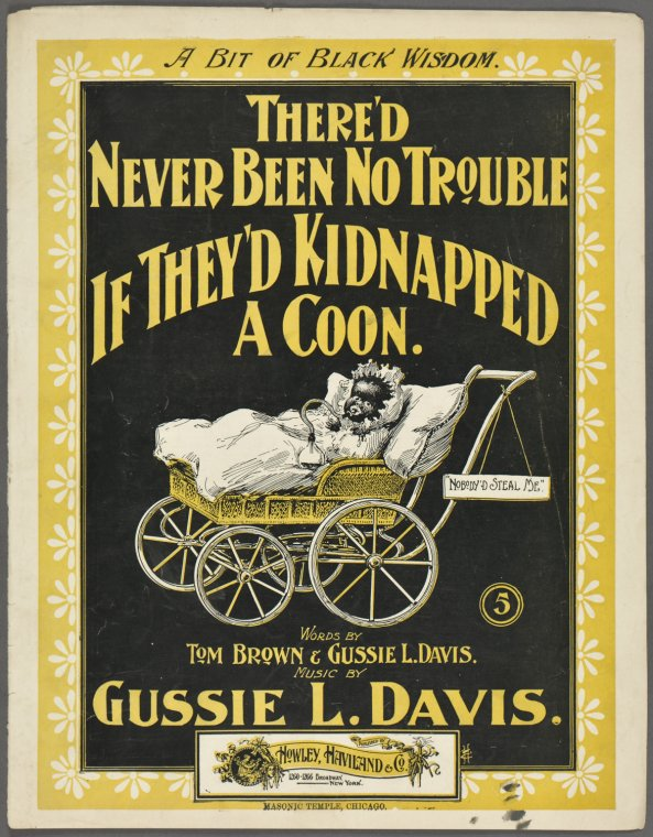 "Cover design includes drawing of an African American baby in a baby carriage with a pacifier in its mouth; a sign hangs from one of the handles which reads: Nobody'd steal me. Note 2.) On cover: A bit of black wisdom. Note 3.) Summary: One night an African American and white boy are sitting in a park, the white boy is kidnapped, and the kidnapper gets a jail term, but the narrator moralizes that no sentence would be given if the African American child was kidnapped; the African American child cries but is apparently abandoned by his mother; Jim Johnson gets a plan to get the African American child kidnapped again, but when the kidnapper realizes the child's race, he leaves him; Johnson then has a plan to white-wash the child, but when the child is taken by white people, they wash him, realize he's African American, and put him back in the park."